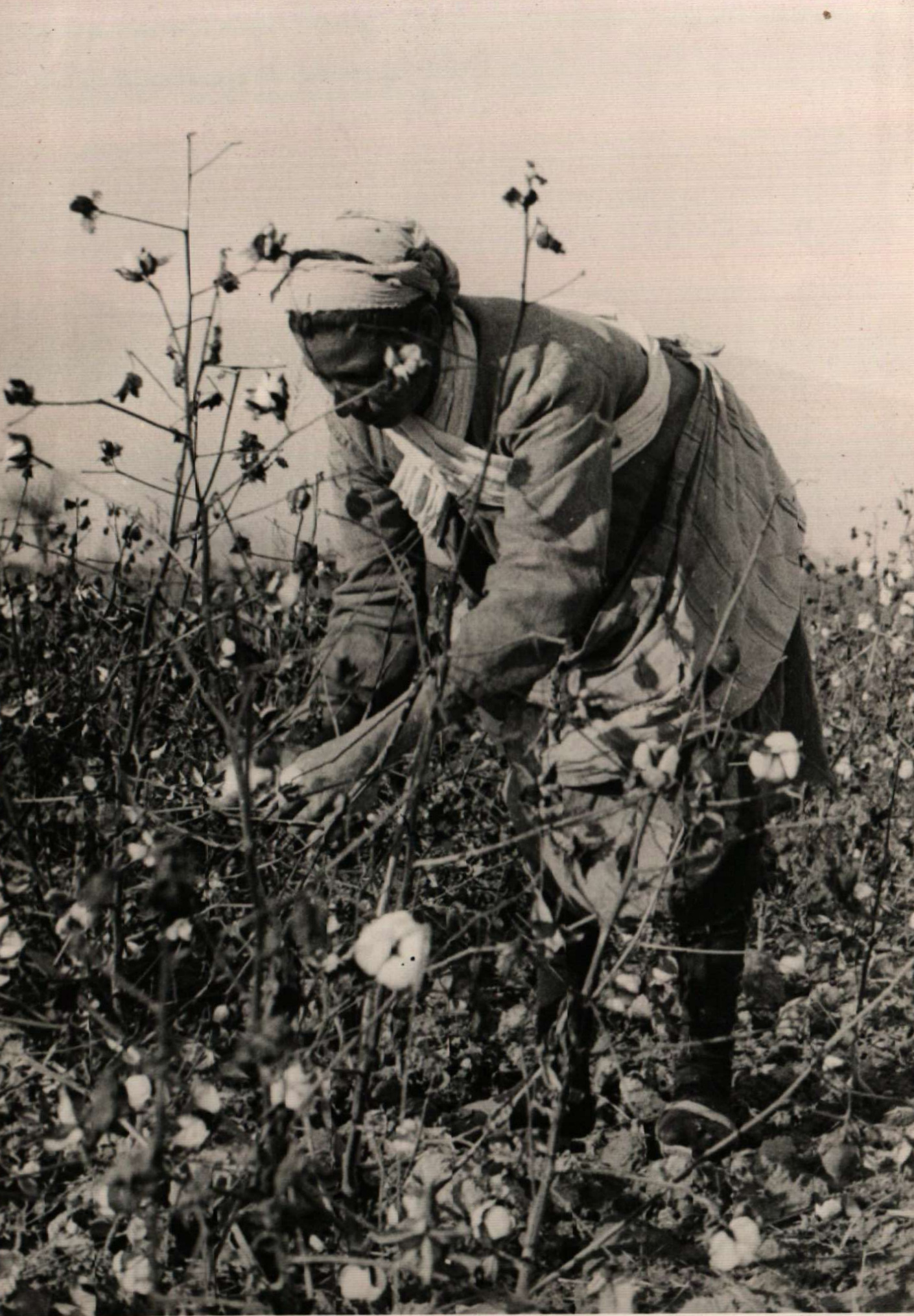 Demir Hisar, Sidirokastro